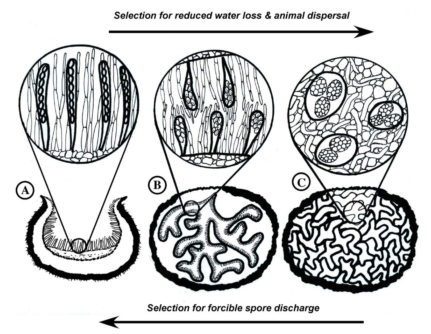 In this scenario the habitat of an epigeous species with 8-spored, uniseriate asci becomes more arid (A). Selection for reduced water loss results in an enclosed truffle form that has hymenium-lined chambers and asci that are shorter and more clavate in form (B). The ability to forcibly discharge spores is lost and selection for other means of spore dispersal intensifies, leading to spore dispersal through animal mycophagy. Continued selection results in a truffle species that fruits belowground and has a solid gleba stuffed with spherical asci packed with irregular numbers of spores (C).